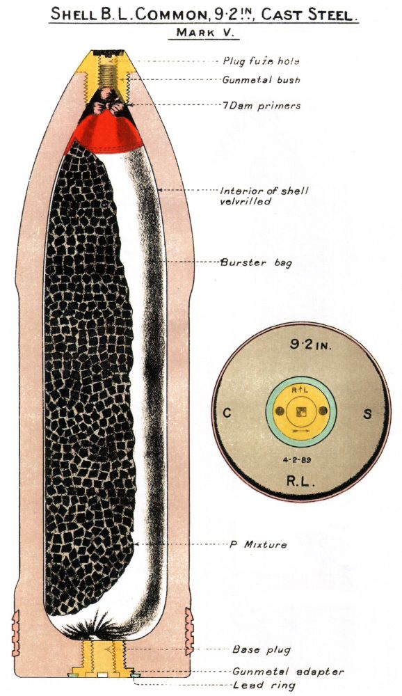 Diagram of British Mk V cast steel Common Shell, for BL 9.2 inch naval and coast defence guns. Shell depicted is dated 1889.